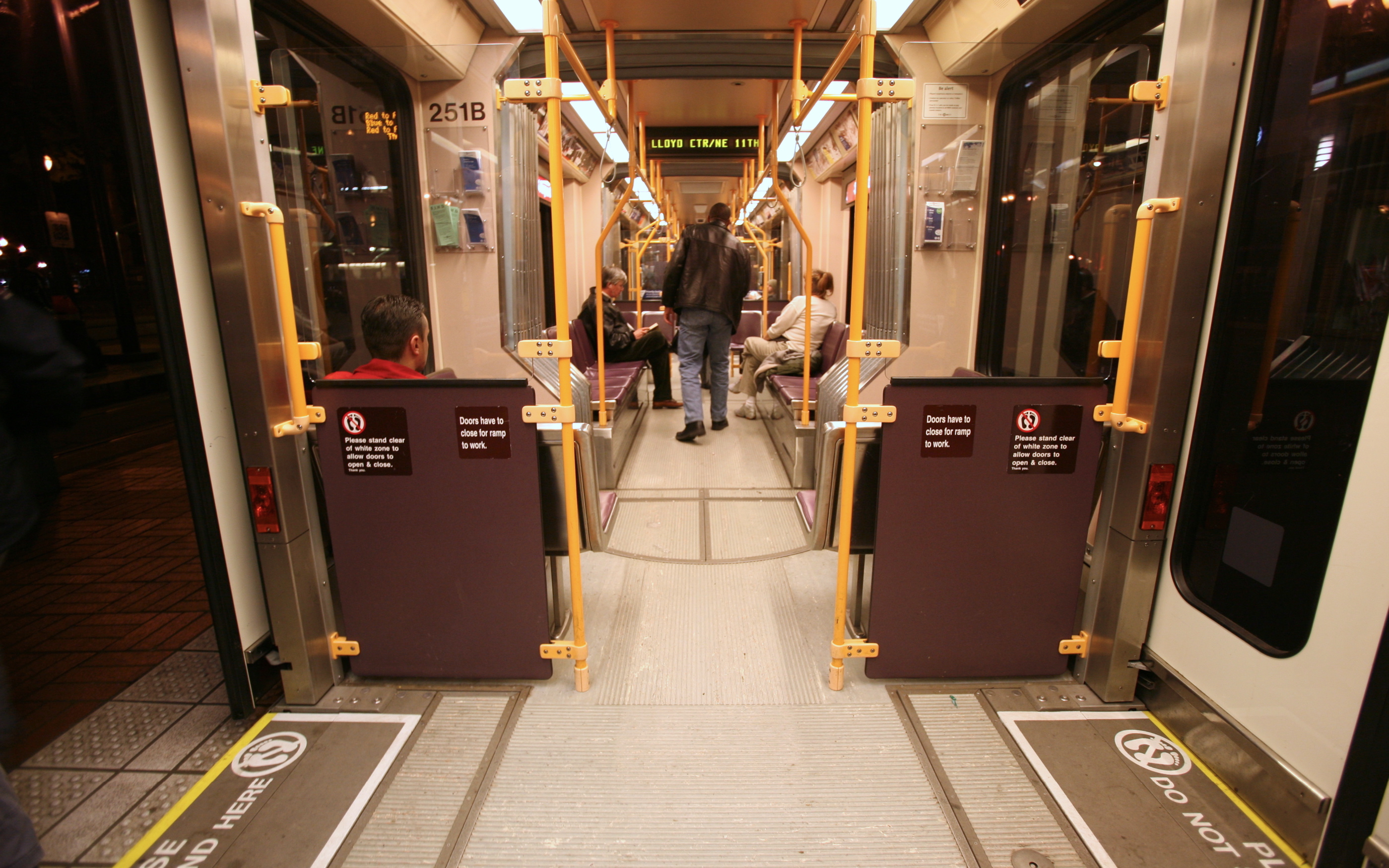 The interior of a Metropolitan Area Express light-rail car in Portland, Oregon. Car 251 is a Siemens SD660 low-floor light rail vehicle.